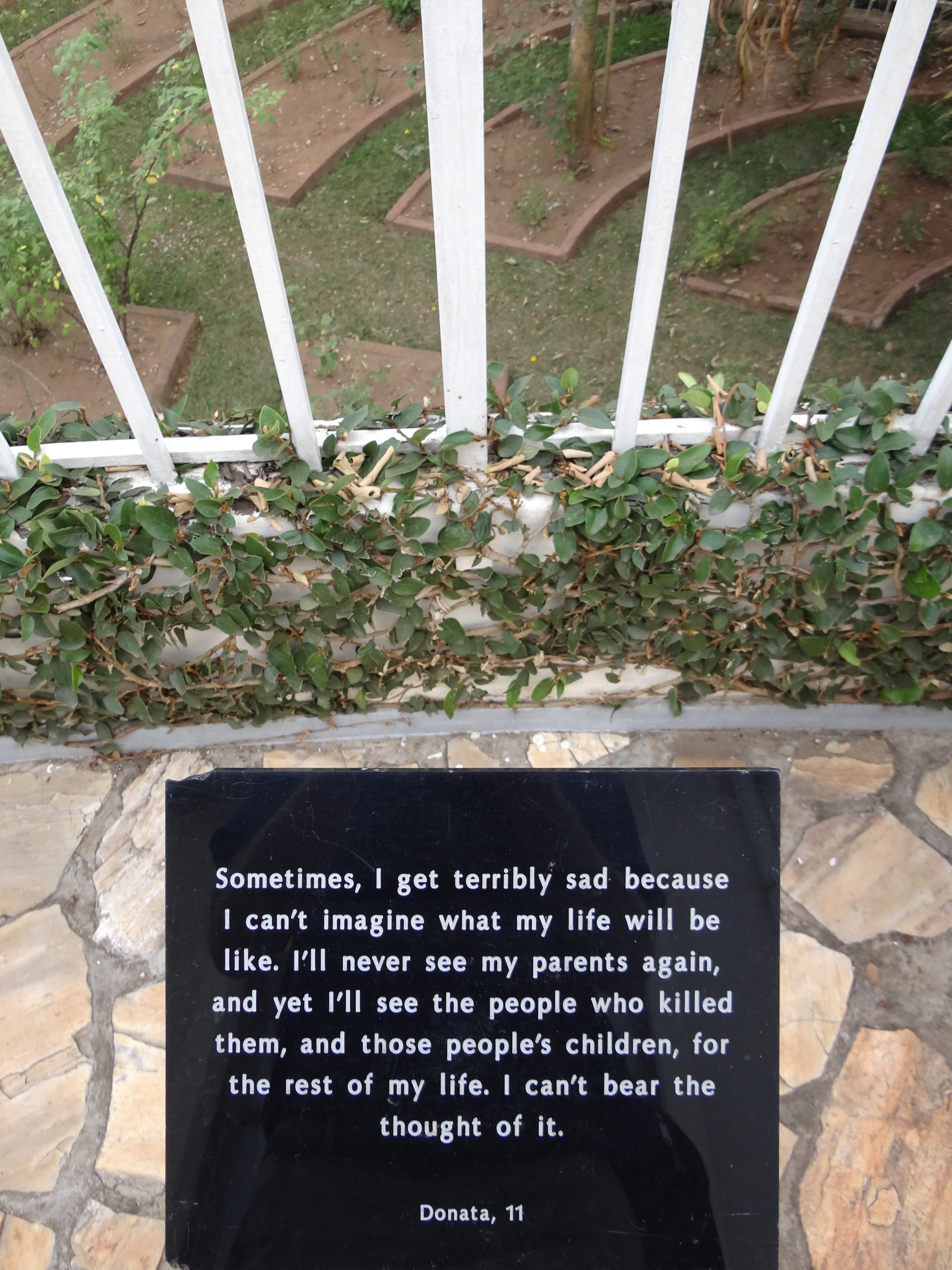 Sometimes, I get terribly sad because I can't imagine what my life will be like. I'll never see my parents again, and yet I'll see the people who killed them. - Plaque of Genocide Survivors Testimony - Genocide Memorial Center - Kigali - Rwanda